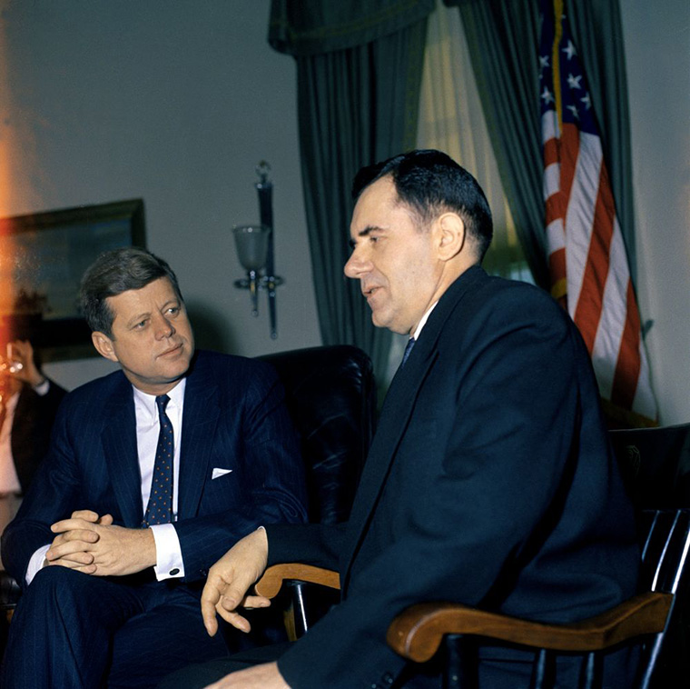 President John F. Kennedy meets with Minister of Foreign Affairs of the Soviet Union Andrei Gromyko in the Oval Office, White House, Washington, D.C.